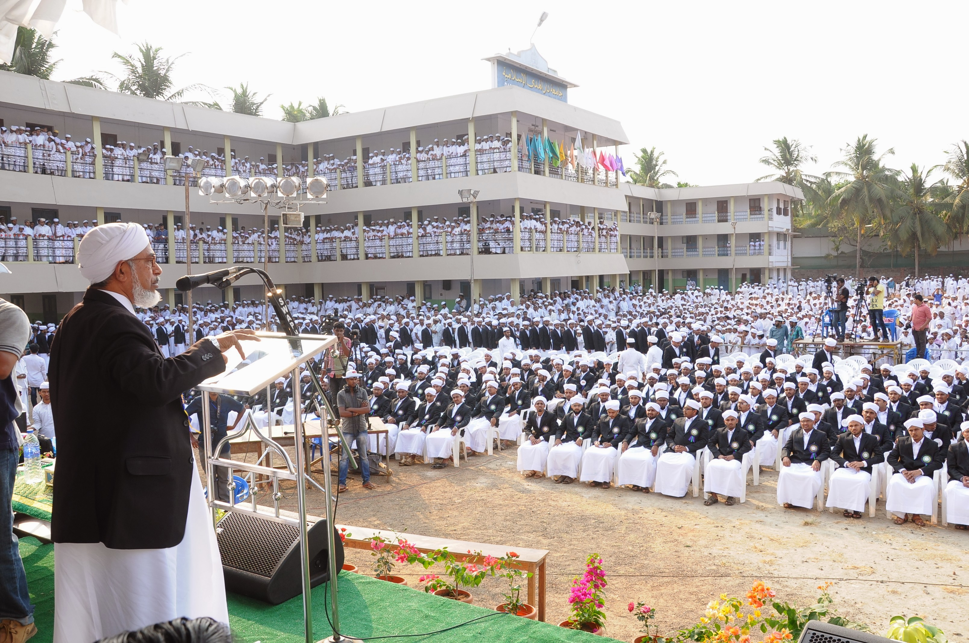 A snap shot convocation of Darul Huda, Chemmad